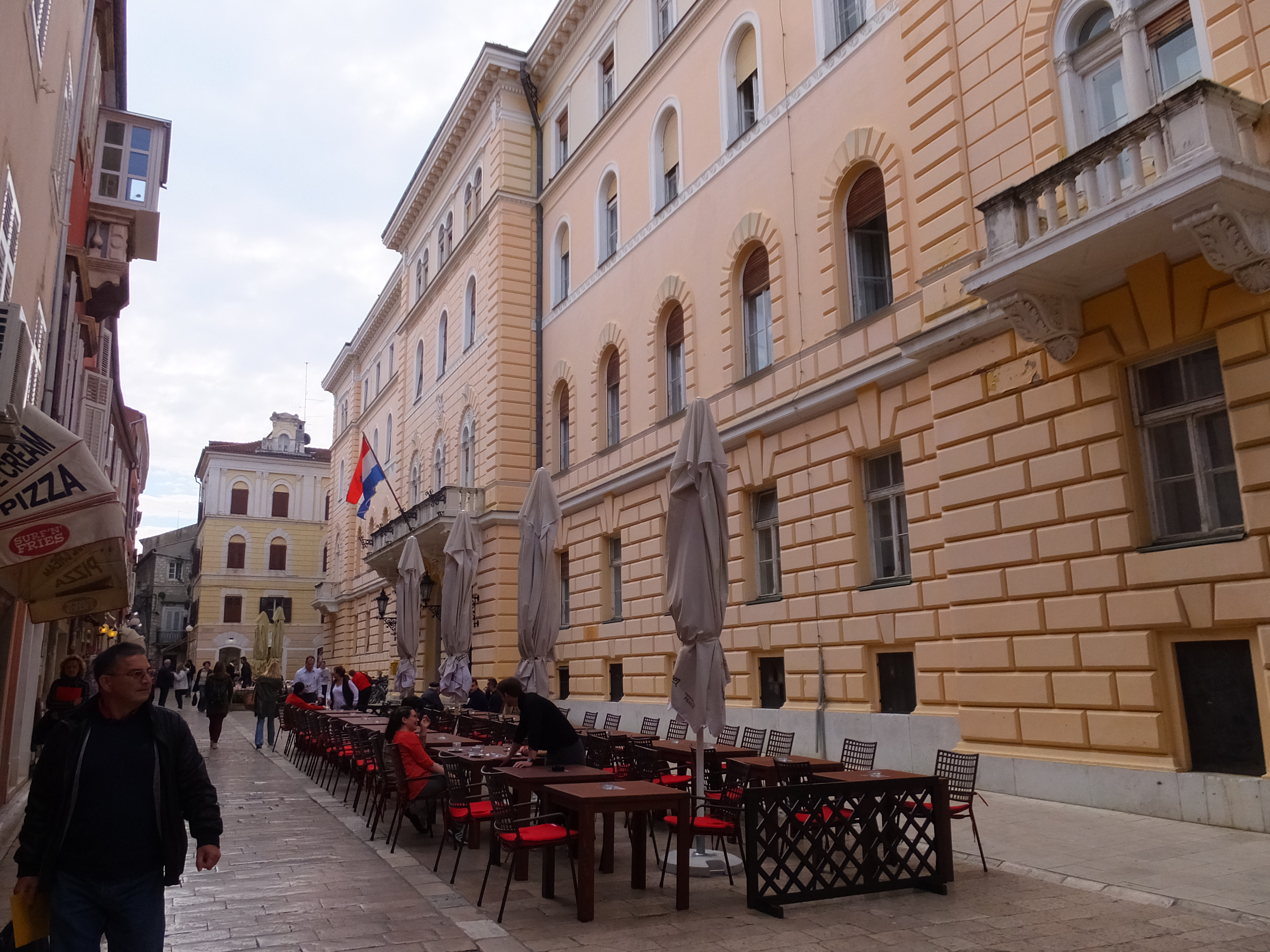 Zadar County Court